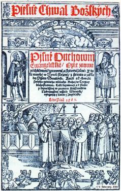 Title page of Kancionál Šamotulský by Jan Blahoslav (1561)